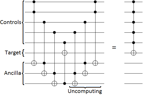 A reversible circuit diagram showing how to use Not gates with two controls (i.e. Toffoli gates) and some ancilla bits to create a Not gate with five controls.